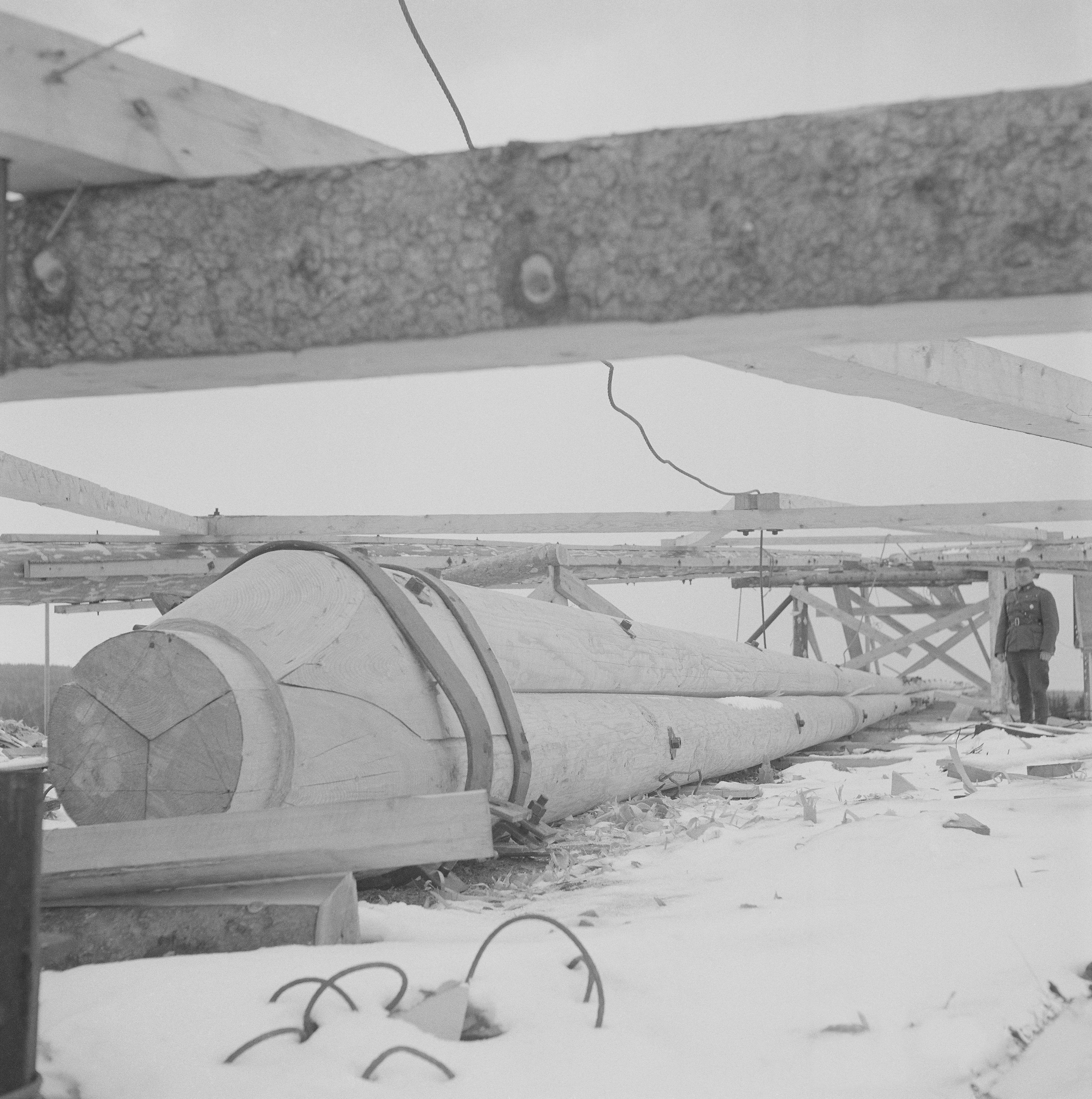 60 metre tall wooden radio mast at Aunus Radio during World War II.